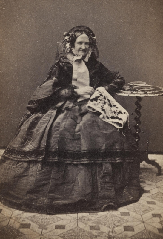 Empress Karoline Charlotte Auguste of Austria